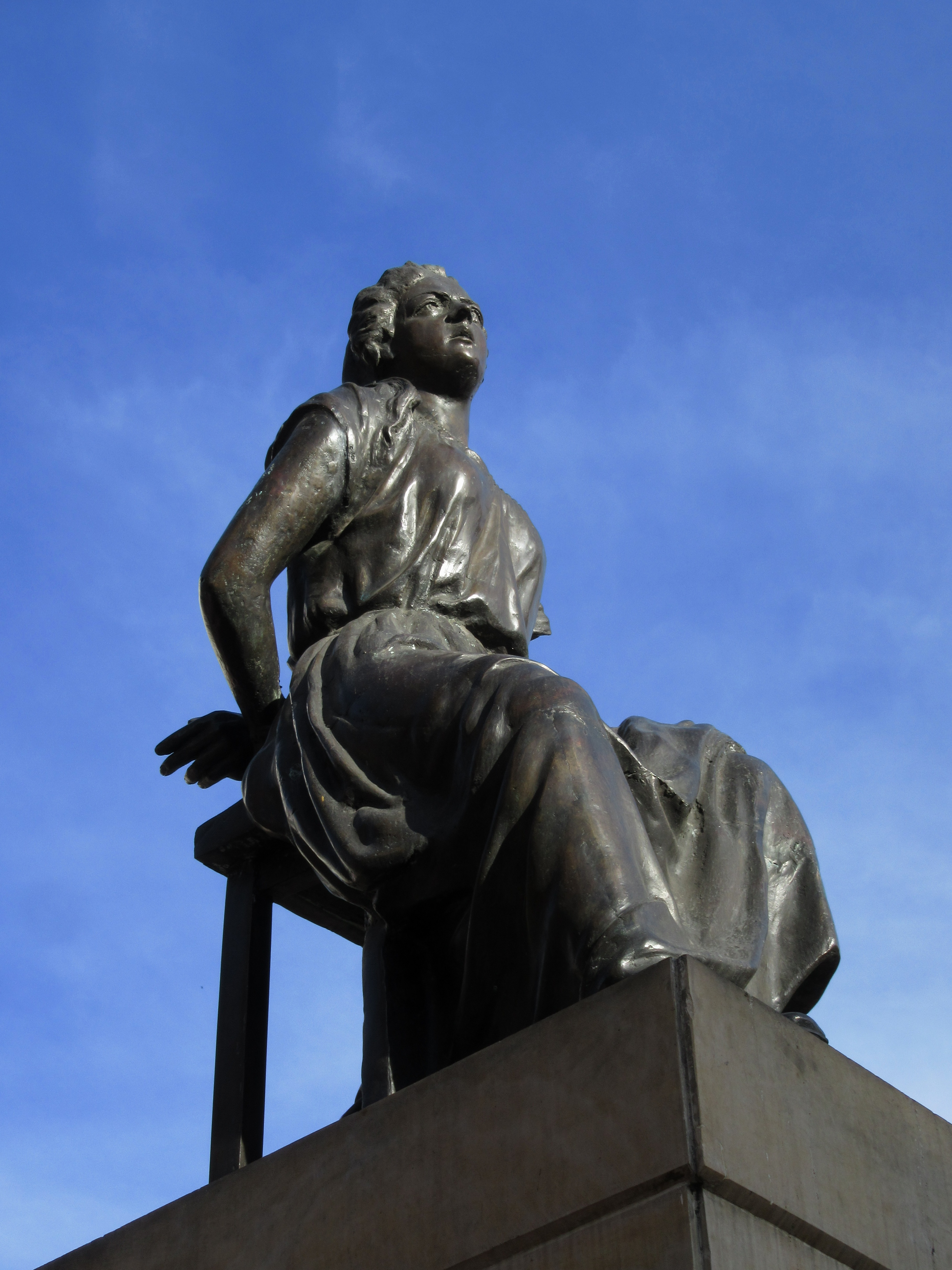 Monumento a La Pola (Policarpa Salavarrieta) en la carrera 2 A con calle 18 barrio Las Aguas, en el centro de Bogotá.